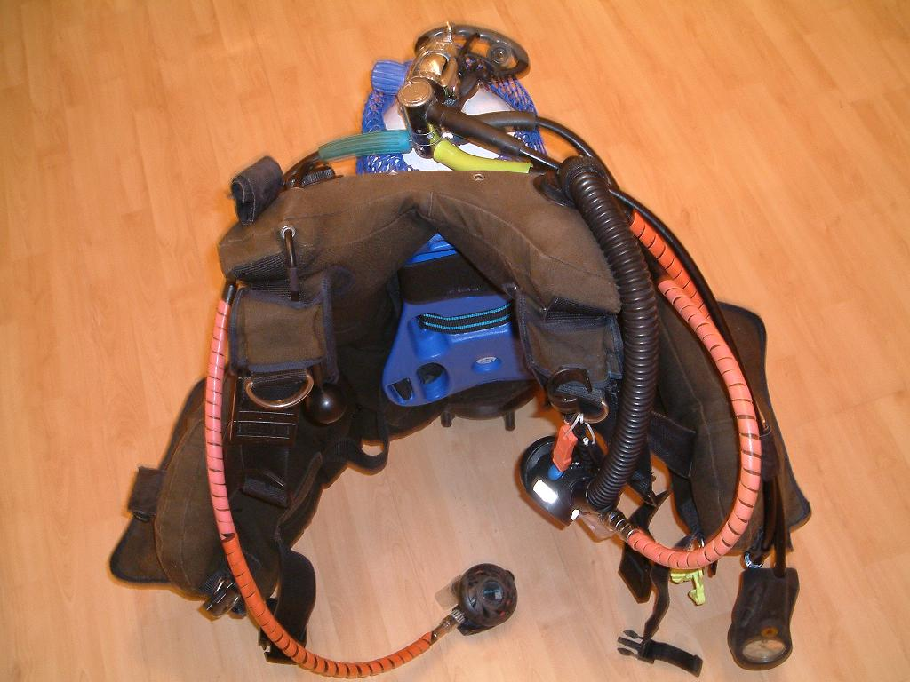 A Buddy Commando jacket on a 15 litre cylinder with a diving regulator